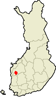 Map of Finland highlighting Kauhajoki.